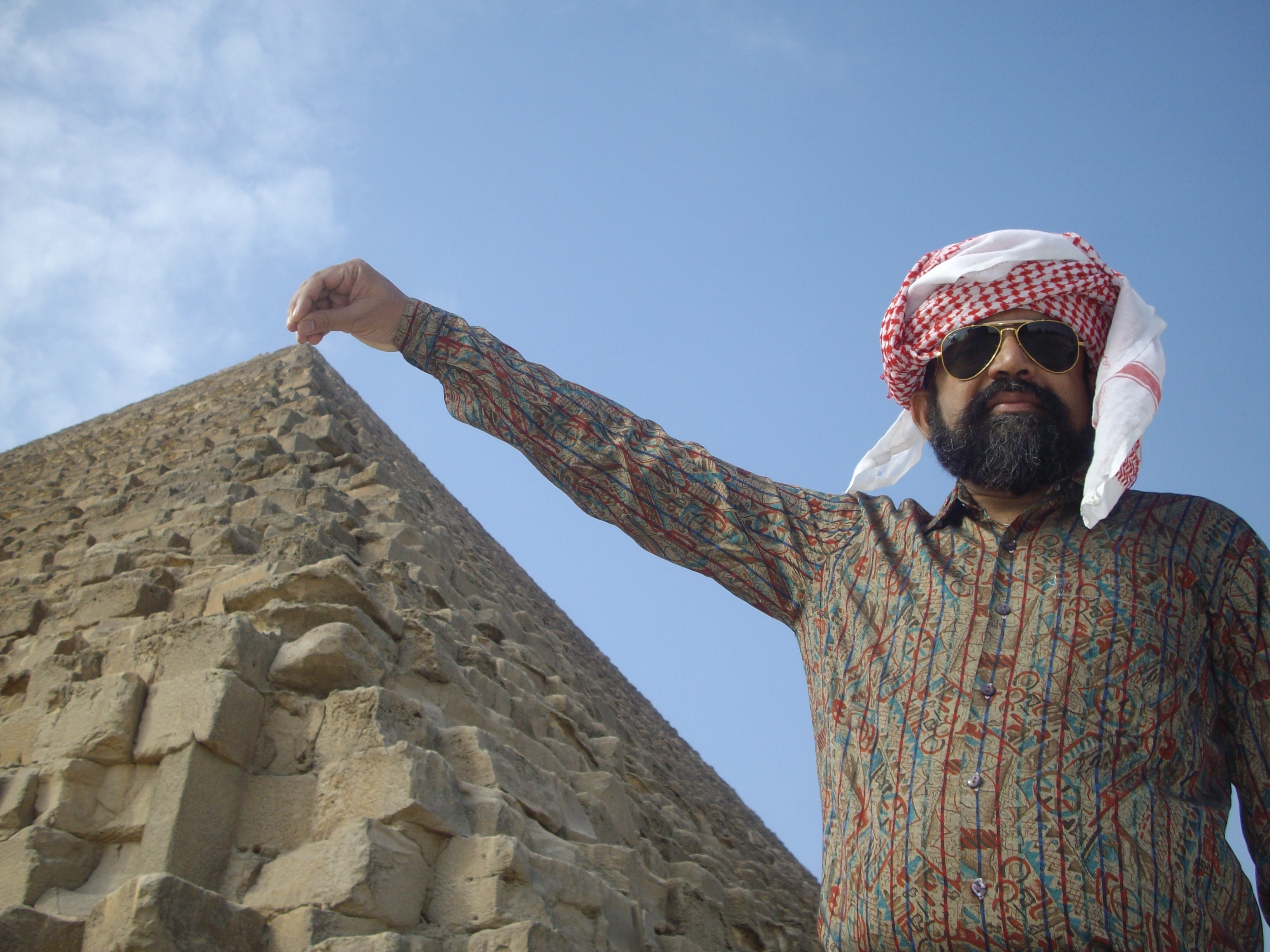 A Natural "Tourist Photo(Rudolph.A.Furtado)" in front of the Great Pyramid of Cheops taken just by positioning of the subject and not "Camera tricks" or "Computer manipulation".